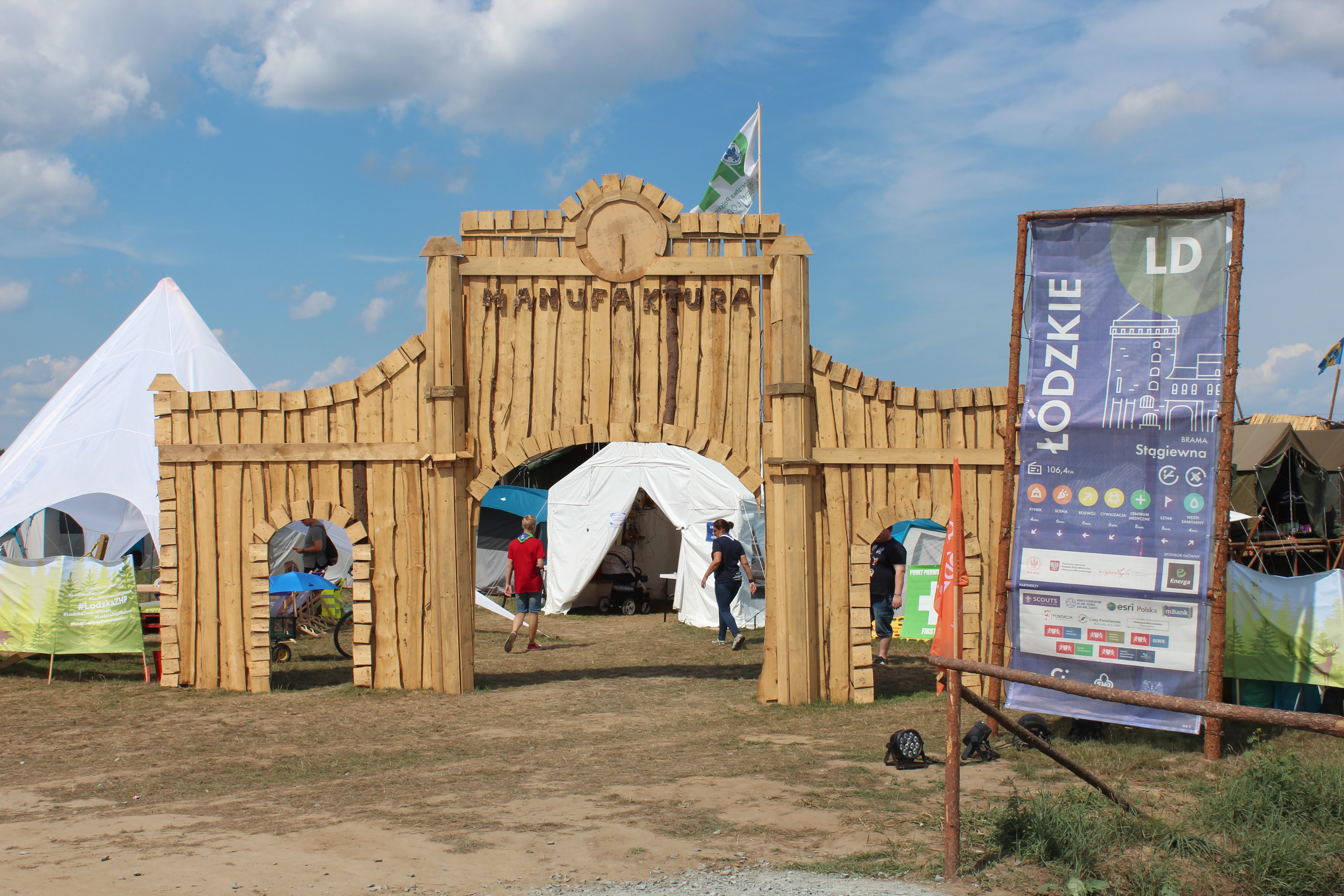 Gdańsk 2018 - Polish Scouting and Guiding Association Jamboree